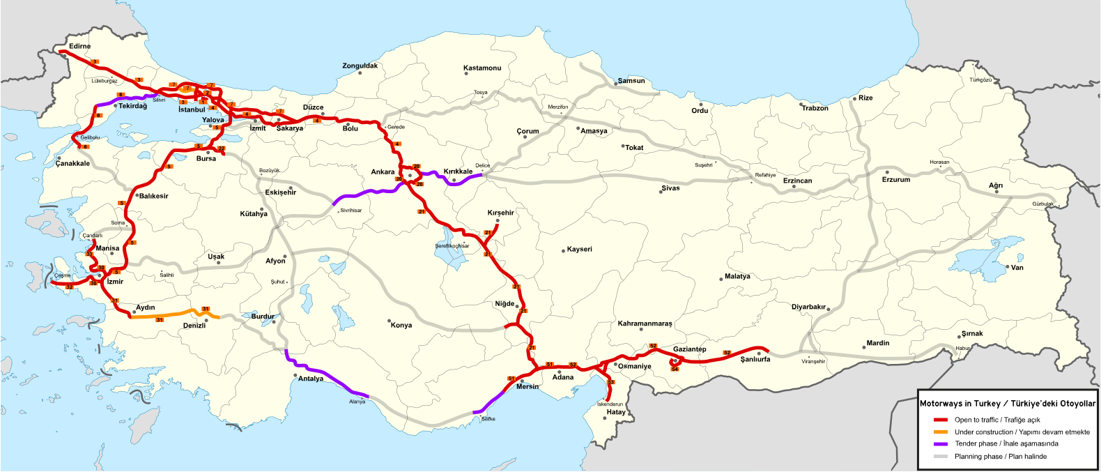 Revised Motorway Map of Turkey (2020)